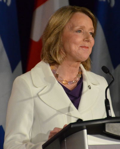 NDP leadership candidate Peggy Nash on March 4, 2012.